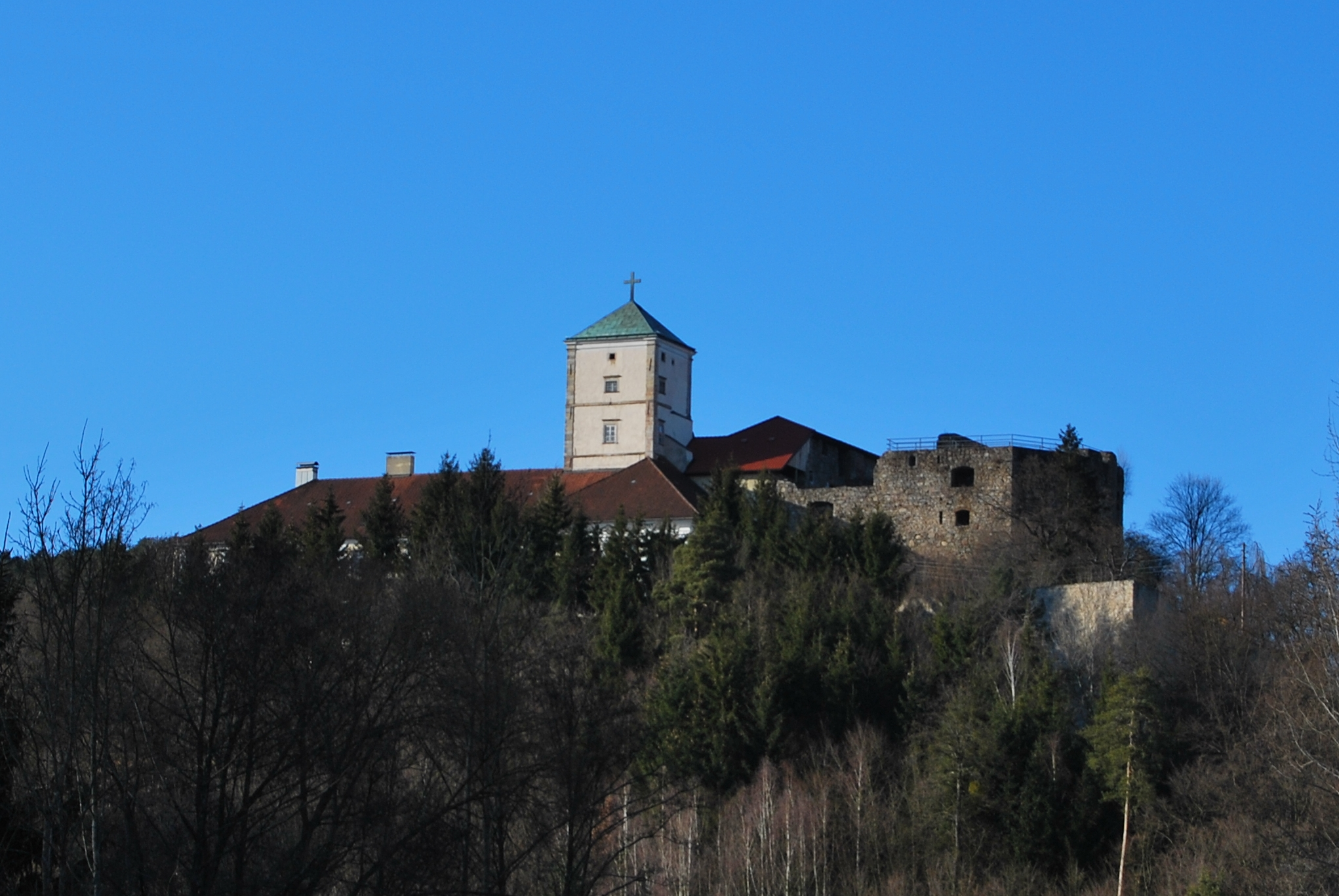 Castle Riedegg near Gallneukirchen in Upper Austria.